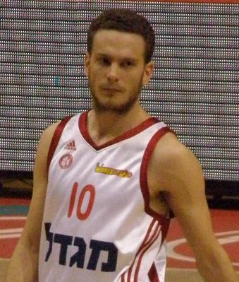 Yuval Naimy, an Israeli basketball player playing for "Hapoel Jerusalem" (2010).